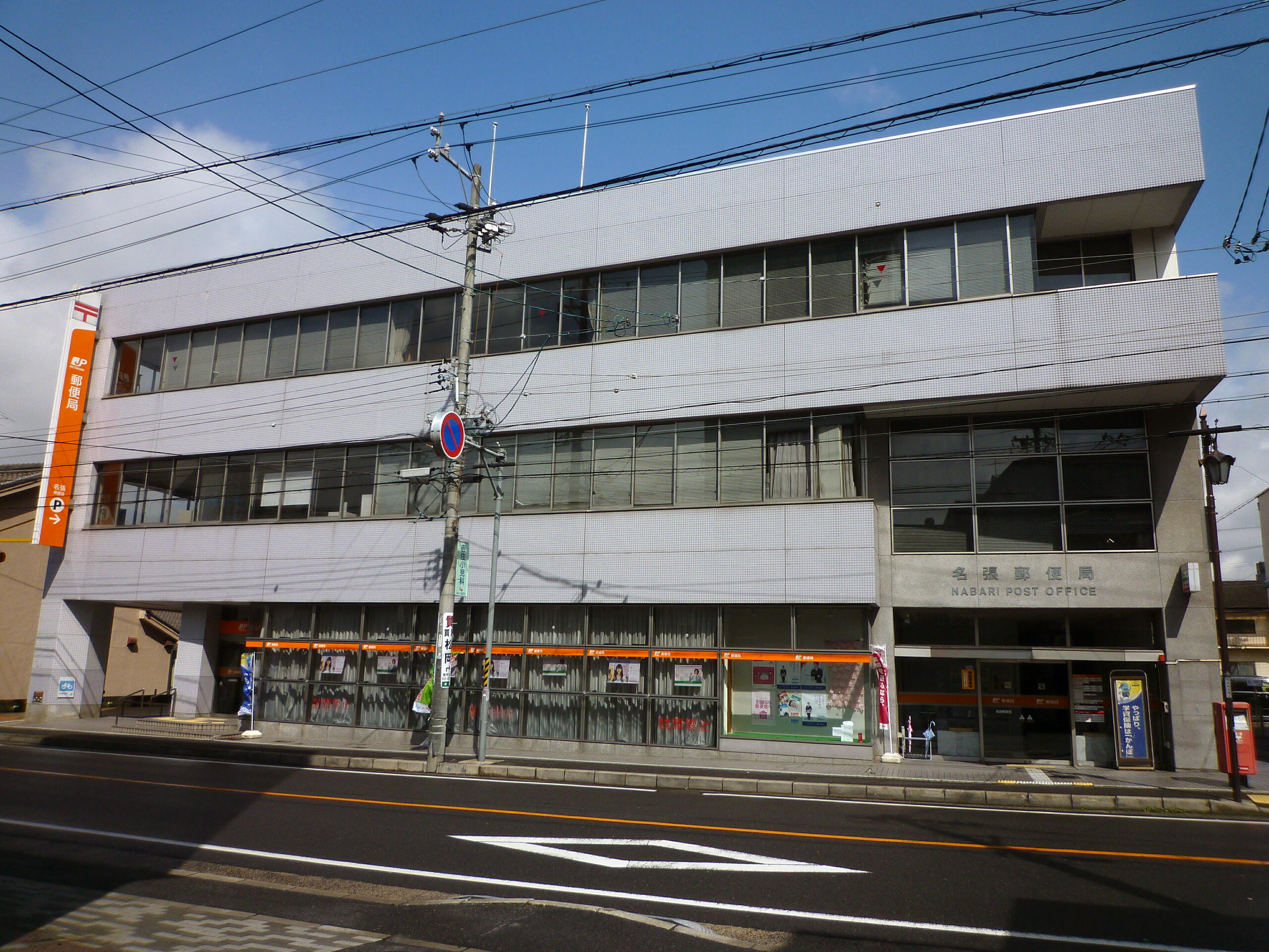 The "Nabari Post Office" in Sakaemachi, Nabari City, Mie Prefecture, Japan.